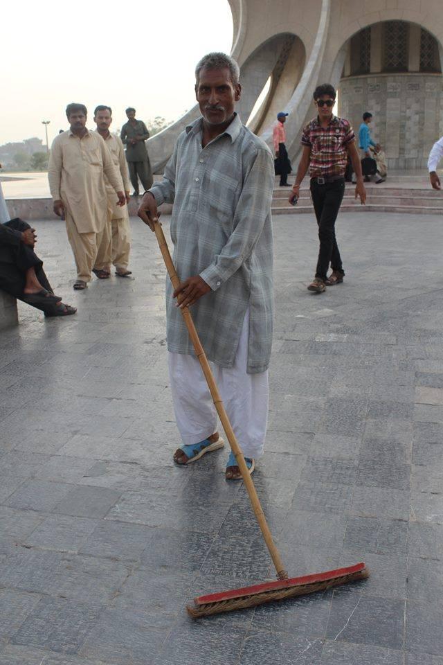 Town janitor, sweeping floors